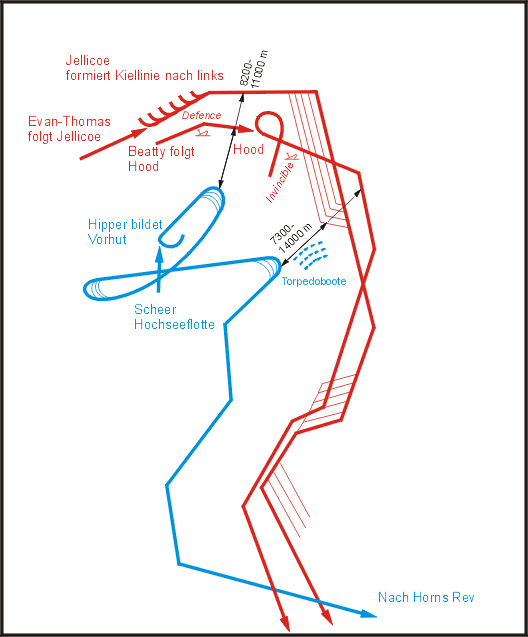 map of battle of jutland battlfleet action